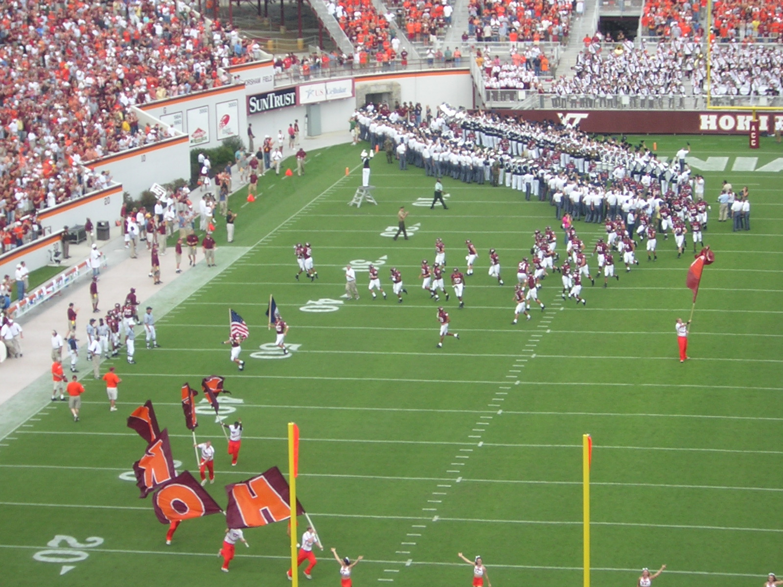 The Virginia Tech Hokies take the field against the Western Michigan University Broncos.